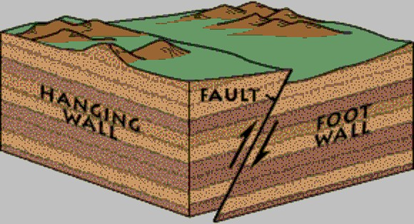 Hanging wall vs Foot wall - faults are classified by how the two rocky blocks on either side of a fault move relative to each other. The one shown here is a reverse fault. The hanging wall block is always above the fault plane, while the foot wall block is always below the fault plane.